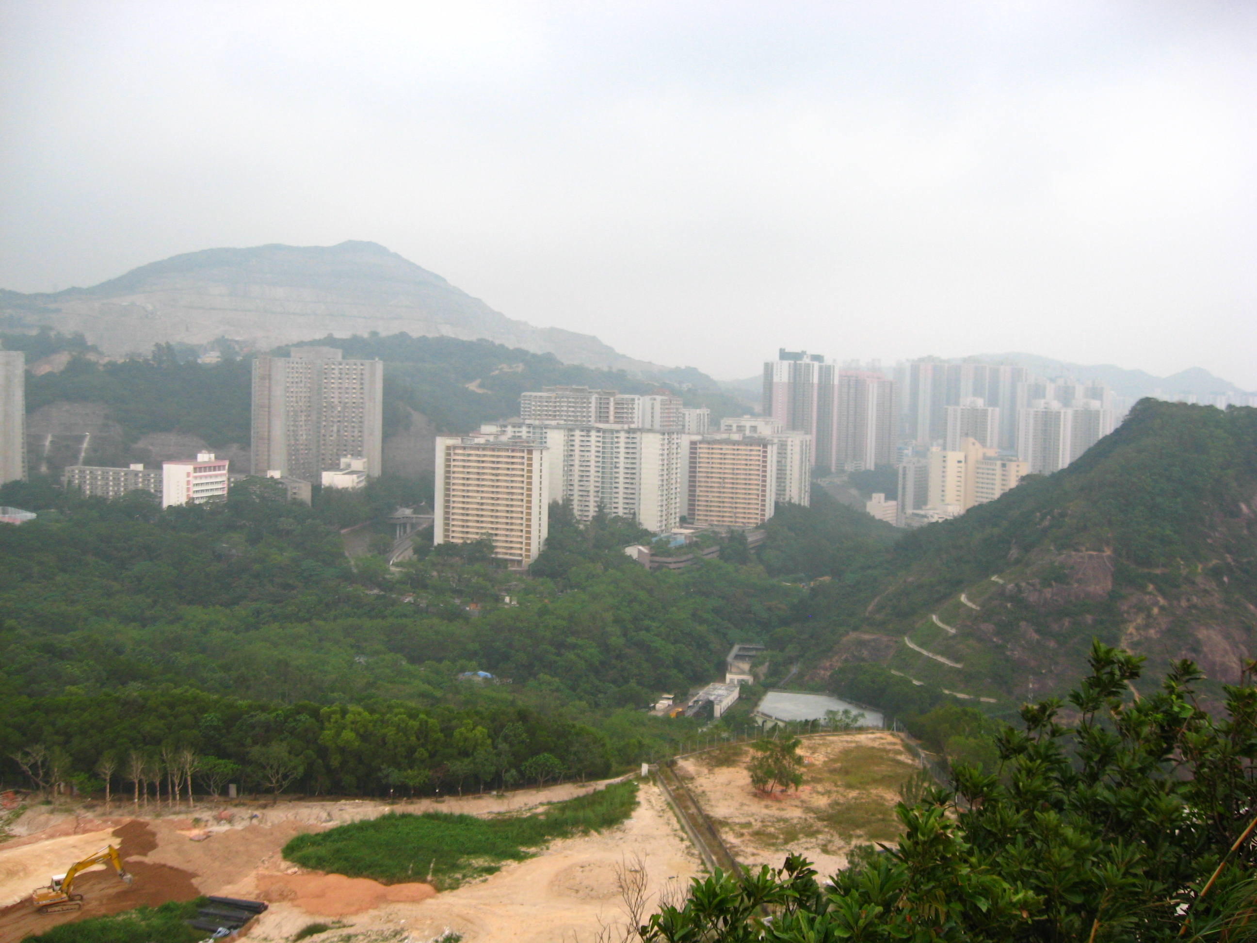 Jordan Valley, Hong Kong 中文（香港）: 香港佐敦谷